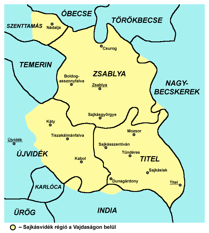 Map of Šajkaška region with labels in Hungarian.